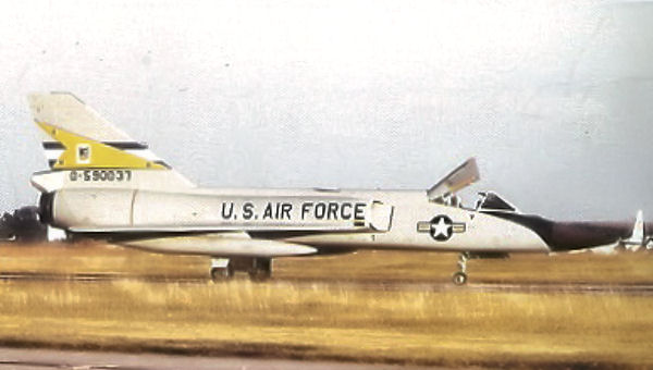 83d Fighter-Interceptor Squadron F-106 59-0037 at Loring AFB, 1972